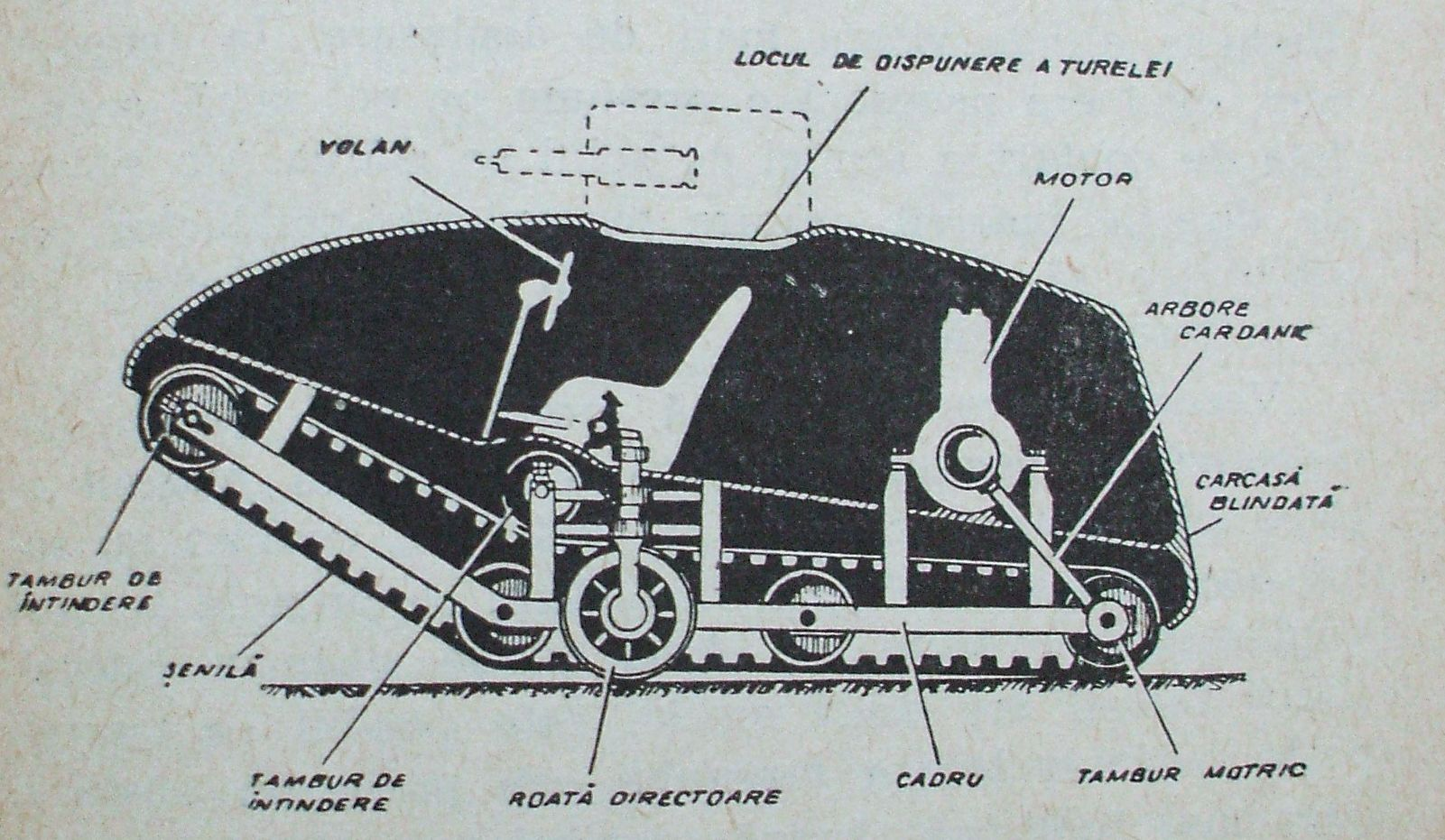 Technical drawing of a Vezdekhod tank. Check the annotations for translation.